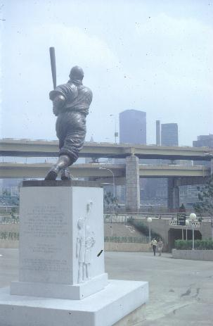 statue of J.P. 'Honus' Wagner, pittsburgh pirates stadium